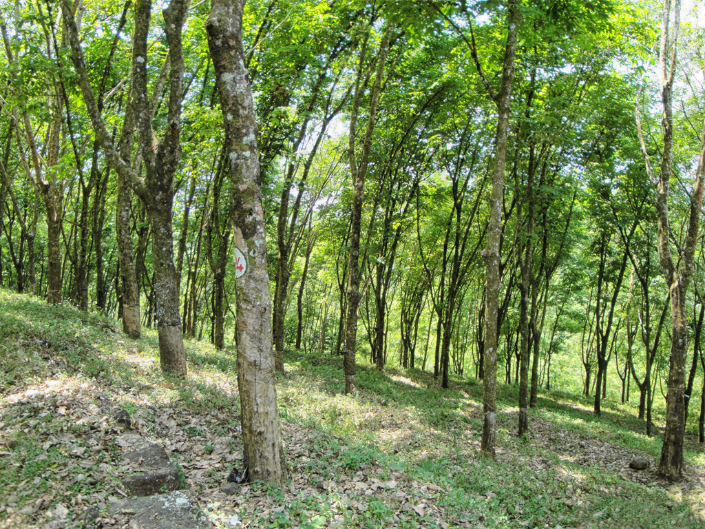 Ingiriya Agriculture03